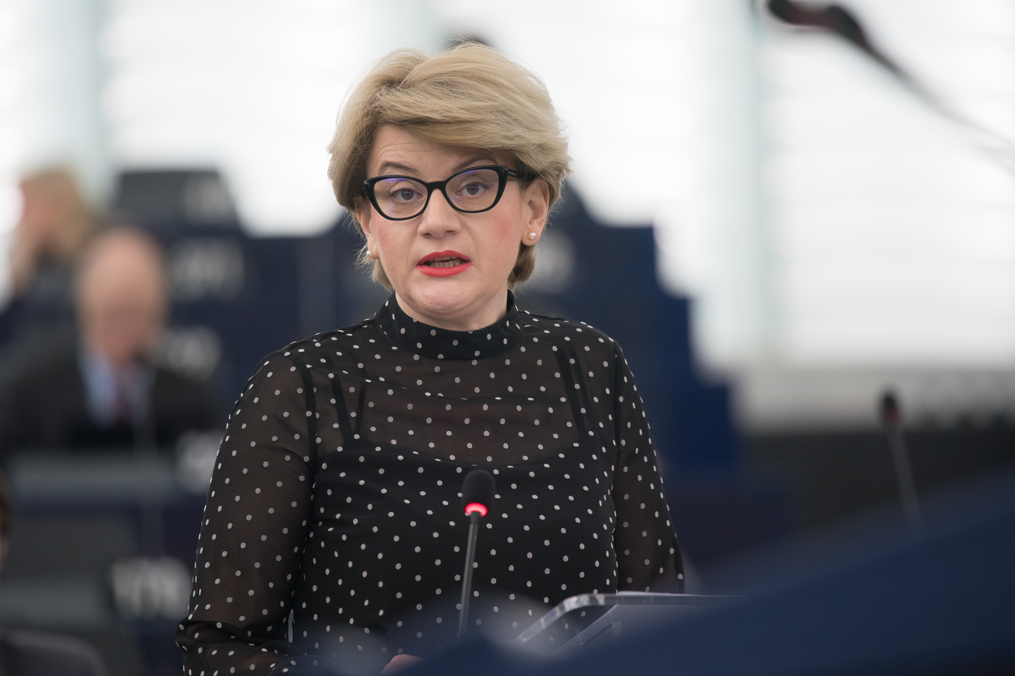 Read our Top Story about climate change here: This photo is free to use under Creative Commons license CC-BY-4.0 and must be credited: "CC-BY-4.0: © European Union 2019 – Source: EP". No model release form if applicable. For bigger HR files please contact: webcom-flickr(AT)